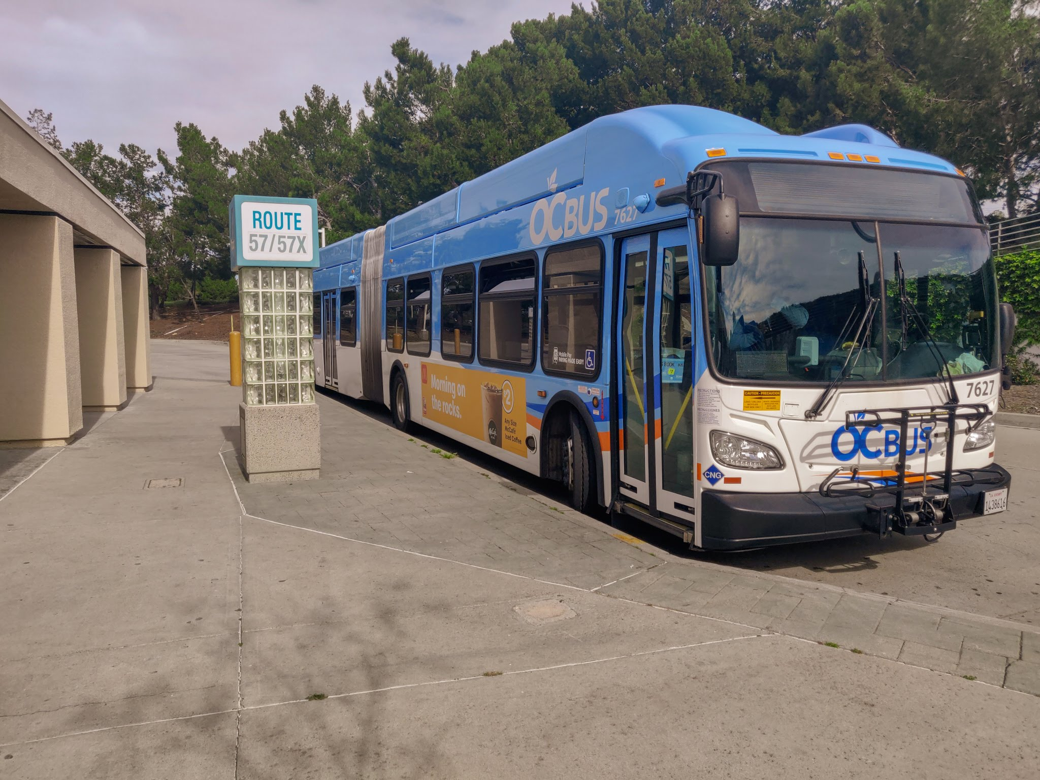 OCTA Unit 7627 waits at Newport Transportation Center in Newport Beach, CA before departing on route 57 Xpress to Brea Mall